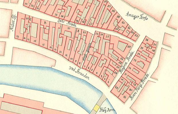 Map detail showing the area with Gammel Strand, Amagertorv and the not yet created Højbro Plads in Copenhagen, Denmark